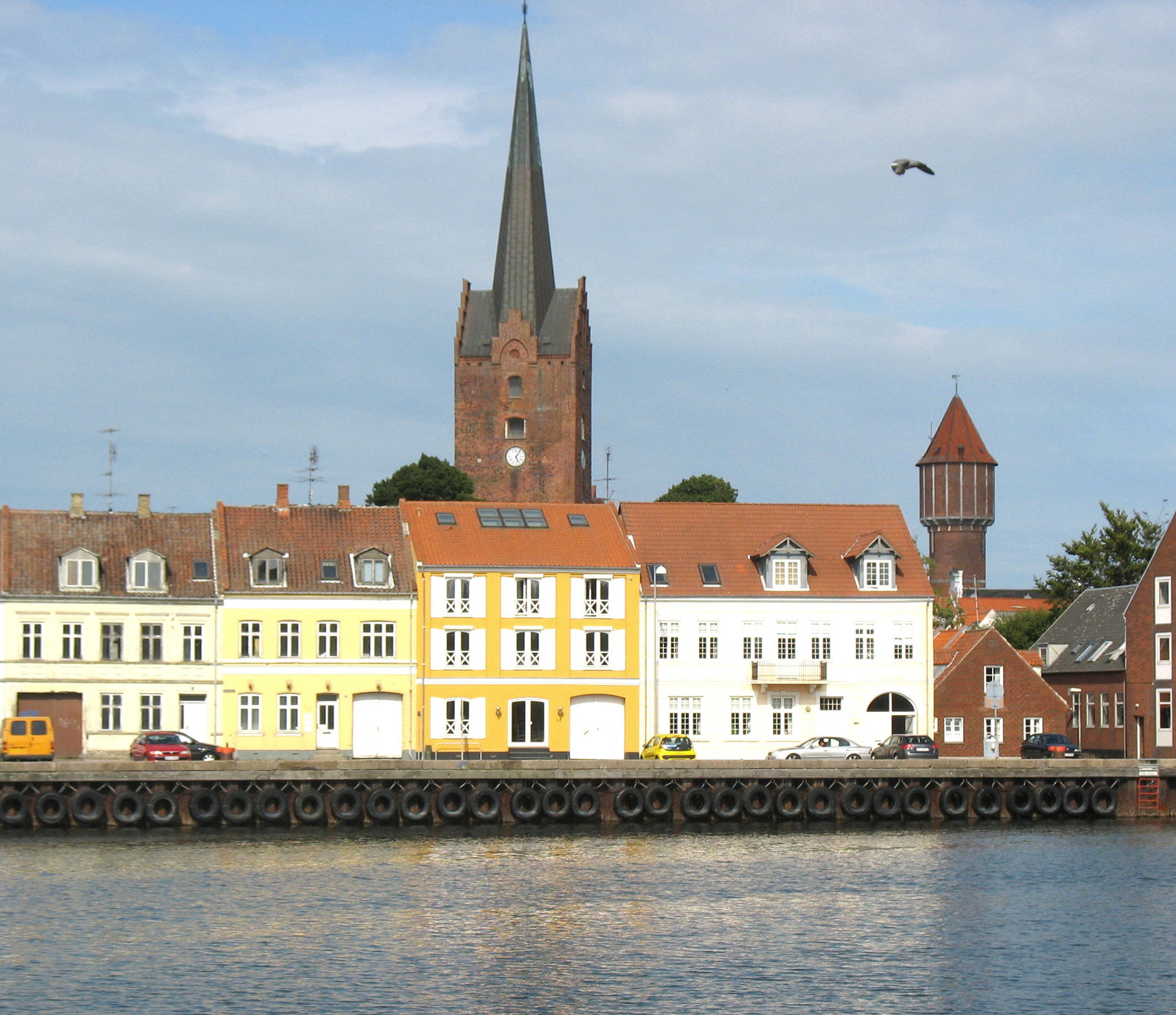 View from the habour at the town "Nakskov" located on the island Lolland in east Denmark.